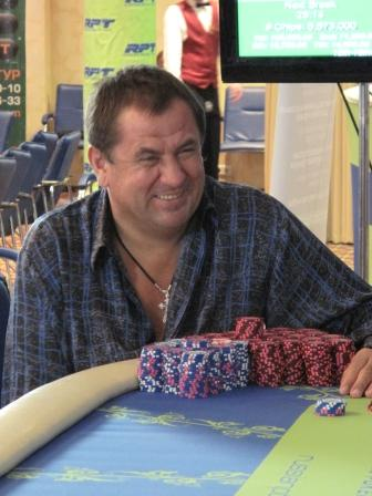 Александр Довженко, фото с турнира Russian Poker Tour Киев